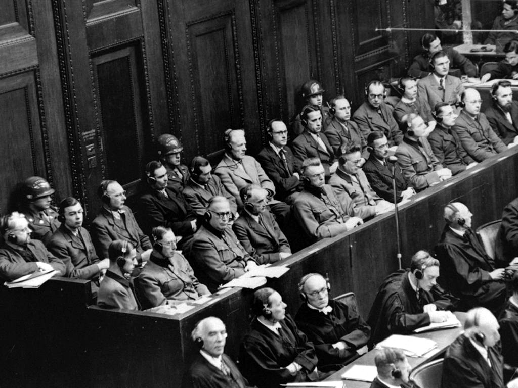 United States of America v. Karl Brandt, et al. (also known as the Doctors' trial), Nuremberg, Germany. "Defendants seated under guard in the dock behind the defense counsel during the Doctors Trial, which was held in Nuremberg, Germany, from December 9, 1946, to August 20, 1947."